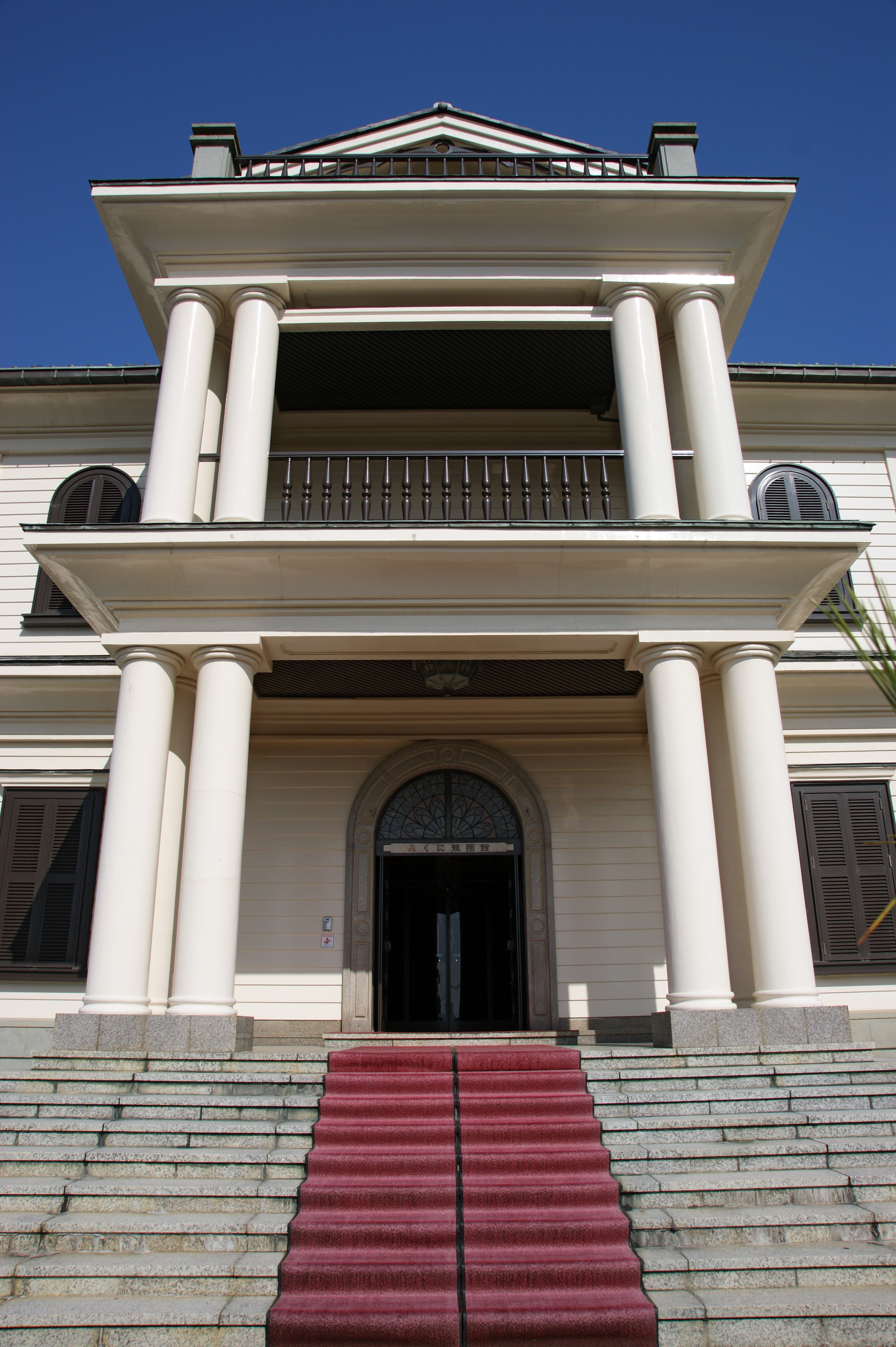 Mikuni-ryushokan, Sakai, Fukui prefecture, Japan